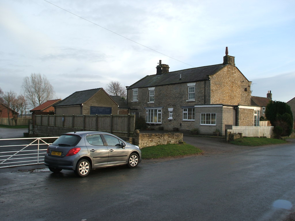 Slingsby railway station (site), YorkshireOpened in 1853 as a branch of the York Berwick & Newcastle Railway's line from Thirsk to Malton, this station closed to passengers in 1931 and completely in 1964. The line crossed the road left to right between the car and the building.